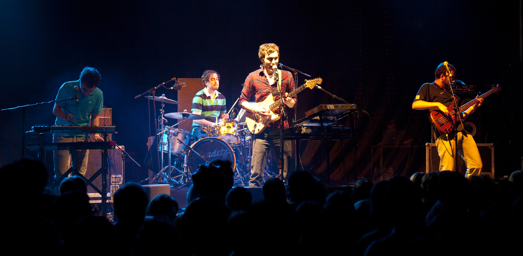 Mendetz in Sant Jordi Club - Escena BCN 2010